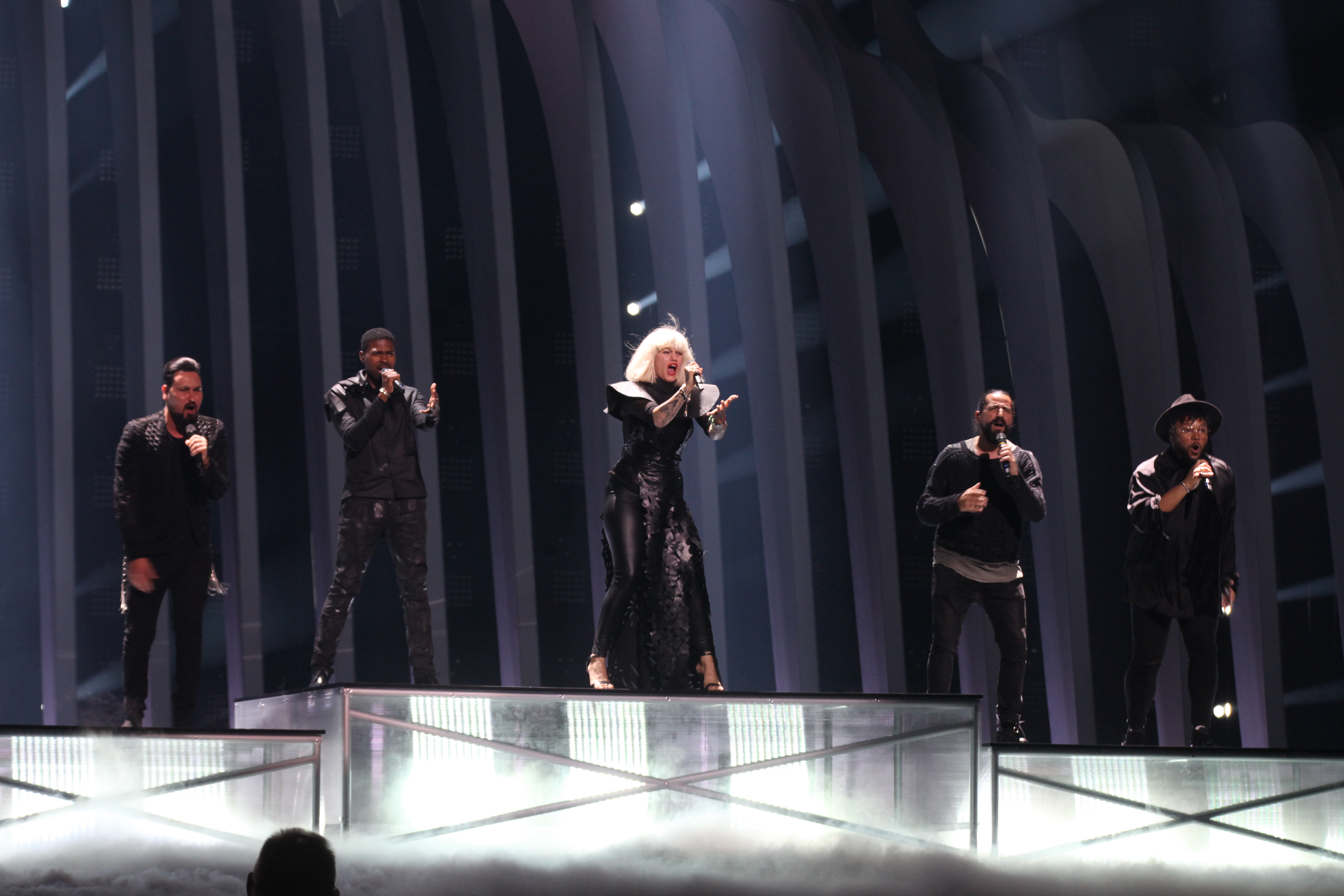 EQUINOX representing Bulgaria with the song "Bones" during a rehearsal before the grand final of the Eurovision Song Contest 2018 in Lisbon.